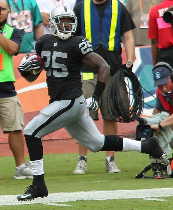 SEPTEMBER 16: Running back Mike Goodson #25 of the Oakland Raiders runs the ball back for a touchdown.